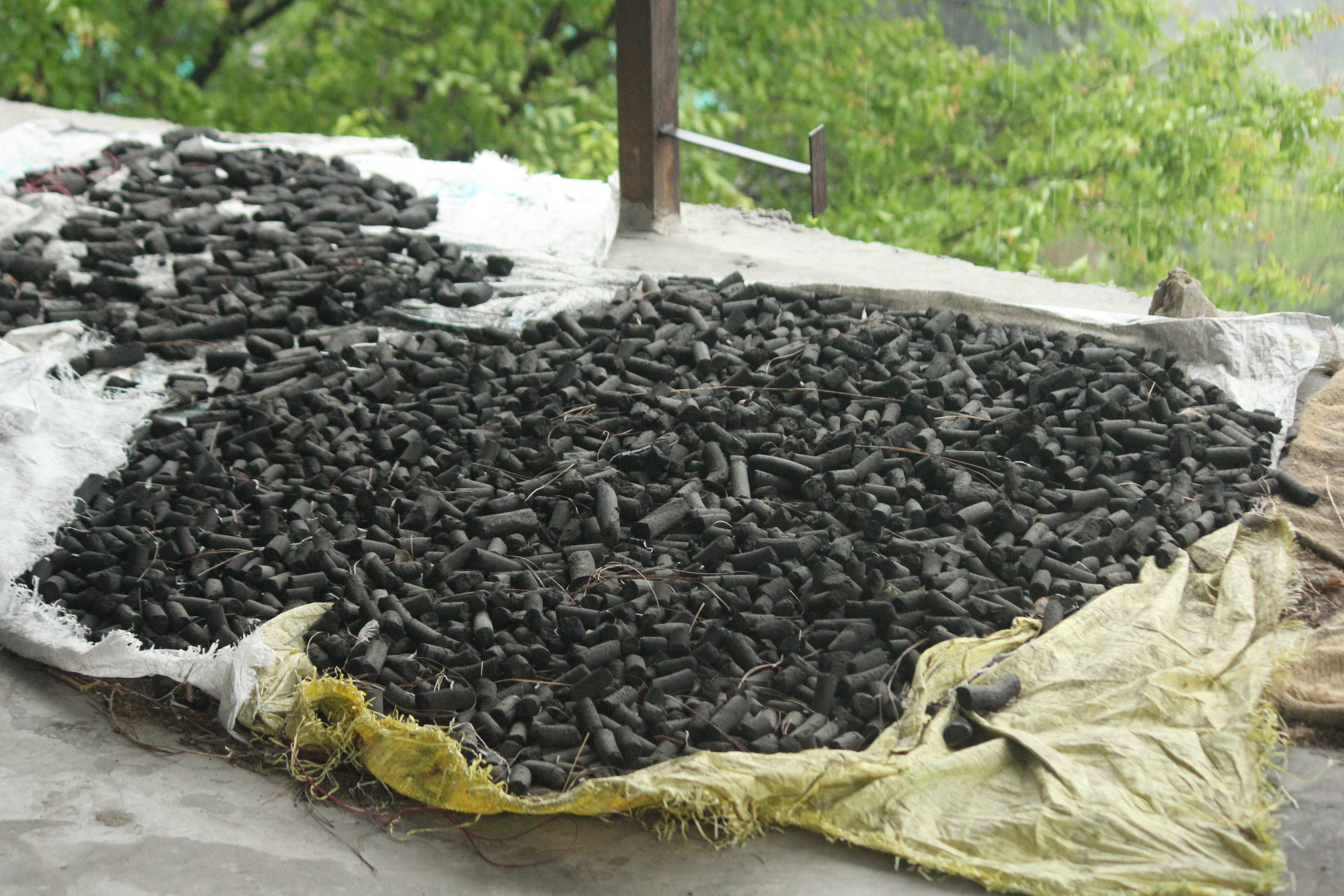 Pine needle briquettes produced by Society for Farmers' Development, Nagwain, Kullu district, Himachal Pradesh